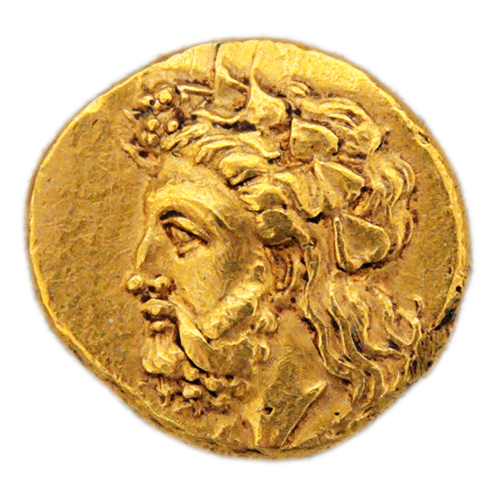 Gold stater issued by the city of Lampsacus, ca. 360–340 BC, obverse: Dionysos-Priapos crowned with an ivy wreath.